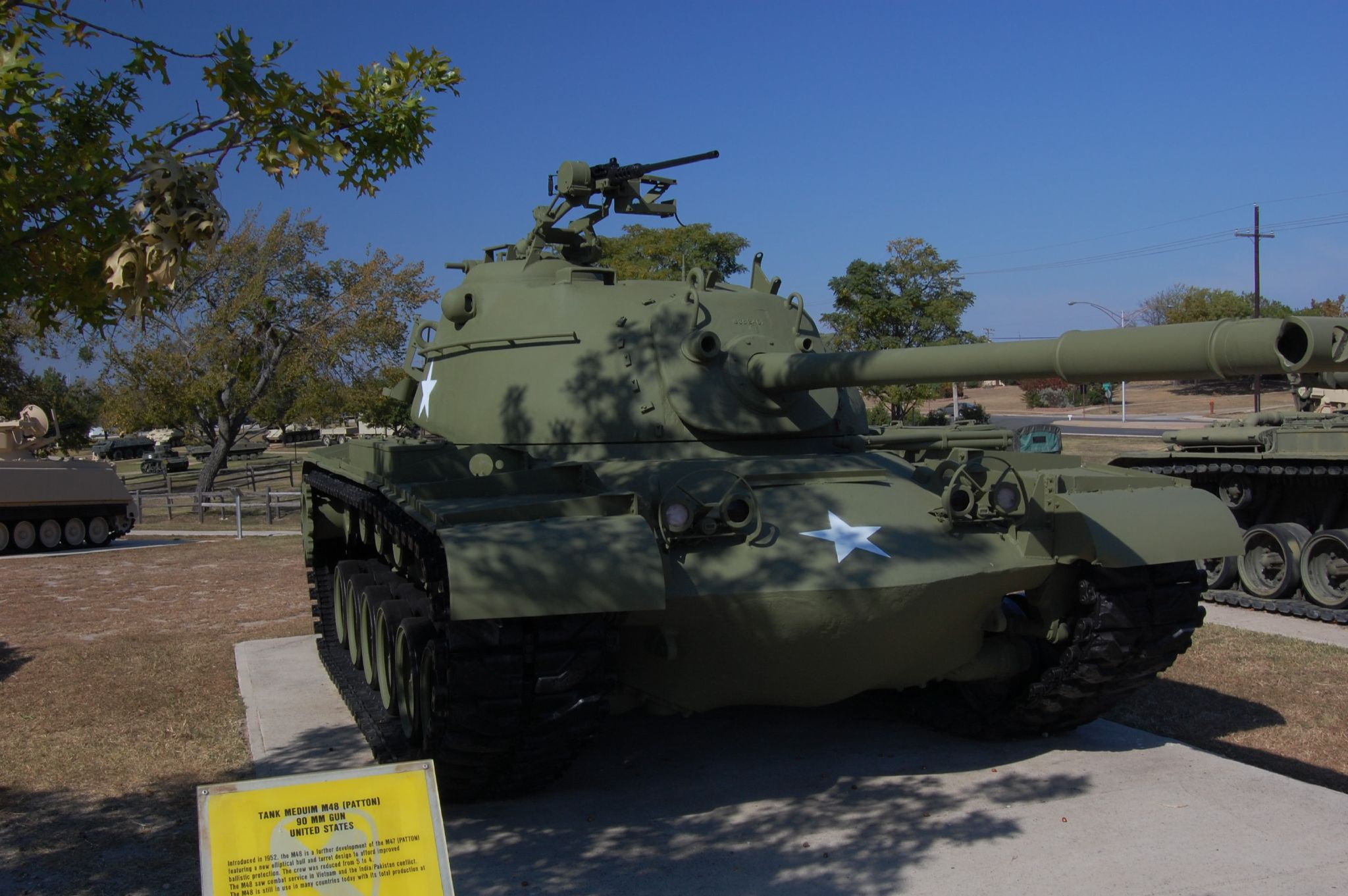 Patton tank